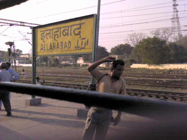 Allahabad Rail Station